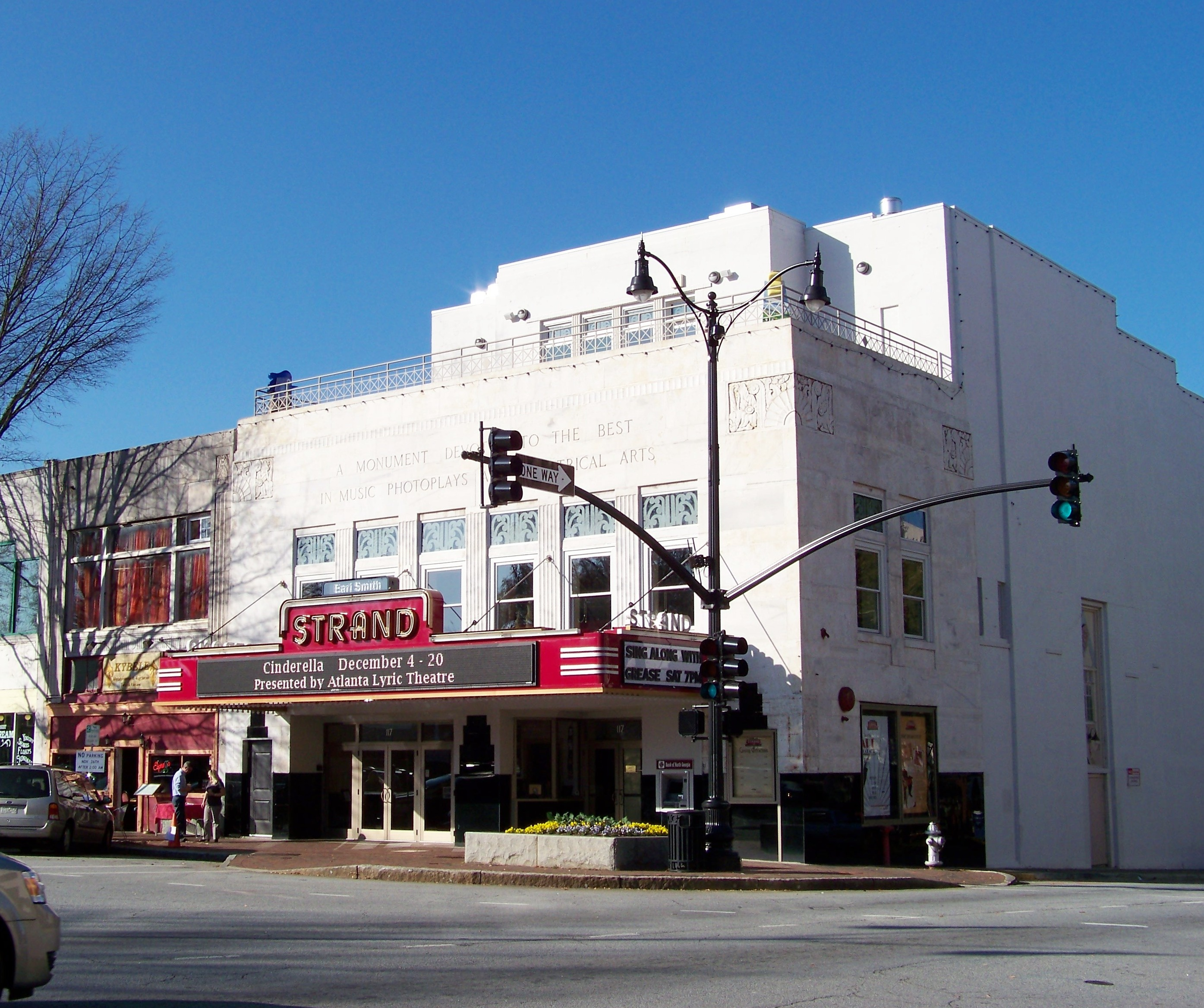 Strand Theater